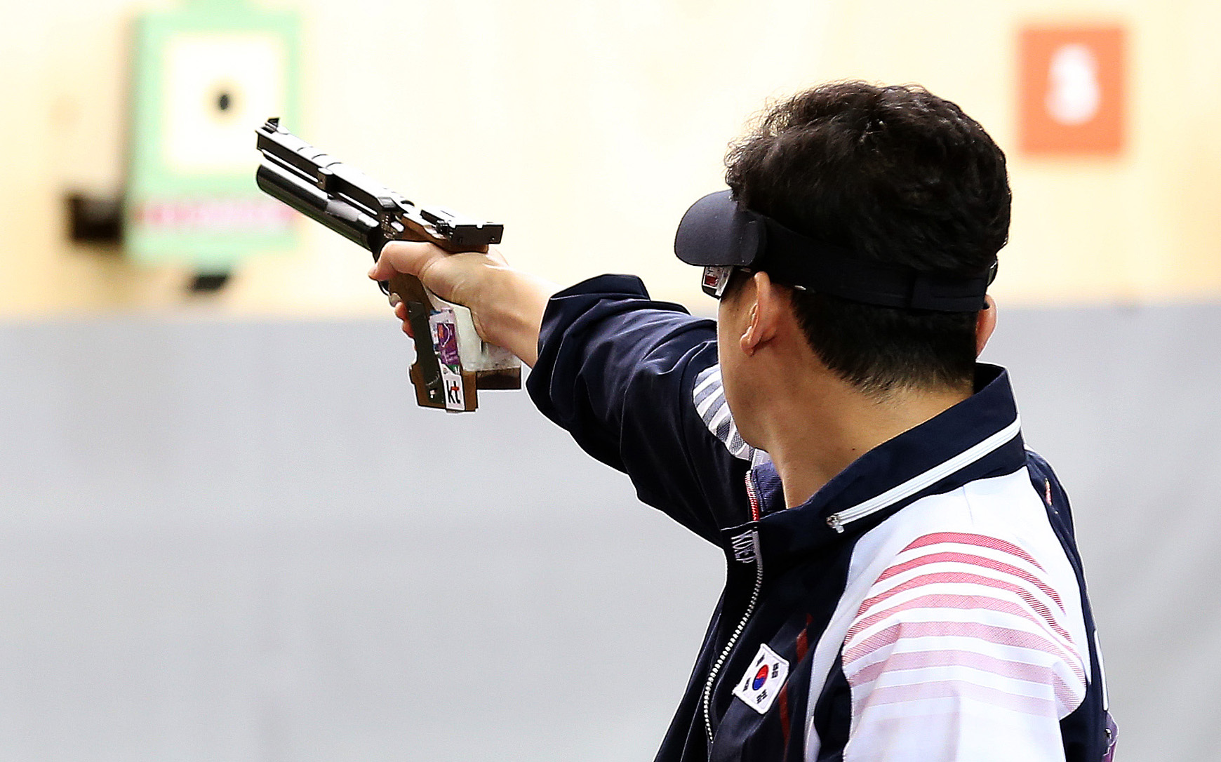 2012 London Olympic Games Korea JIN Jongoh won the gold medal Men's 10 meter air pistol final in the Olympic Games Shooting competition at the Royal Artillery Barracks. 2012.7.29. Photo by Korean Olympic Committee Ministry of Culture, Sports and Tourism Korean Culture and Information Service 2012 런던 올림픽 진종오 남자 10m 공기 권총 금메달 획득 사진제공 - 대한체육회 문화체육관광부 해외문화홍보원